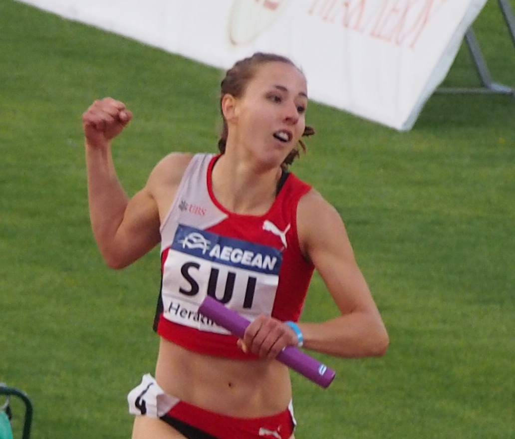 Selina Büchel, at 4x400 women's relay, at the end of the race.